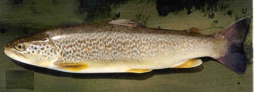 Marble trout from the River Neretva.